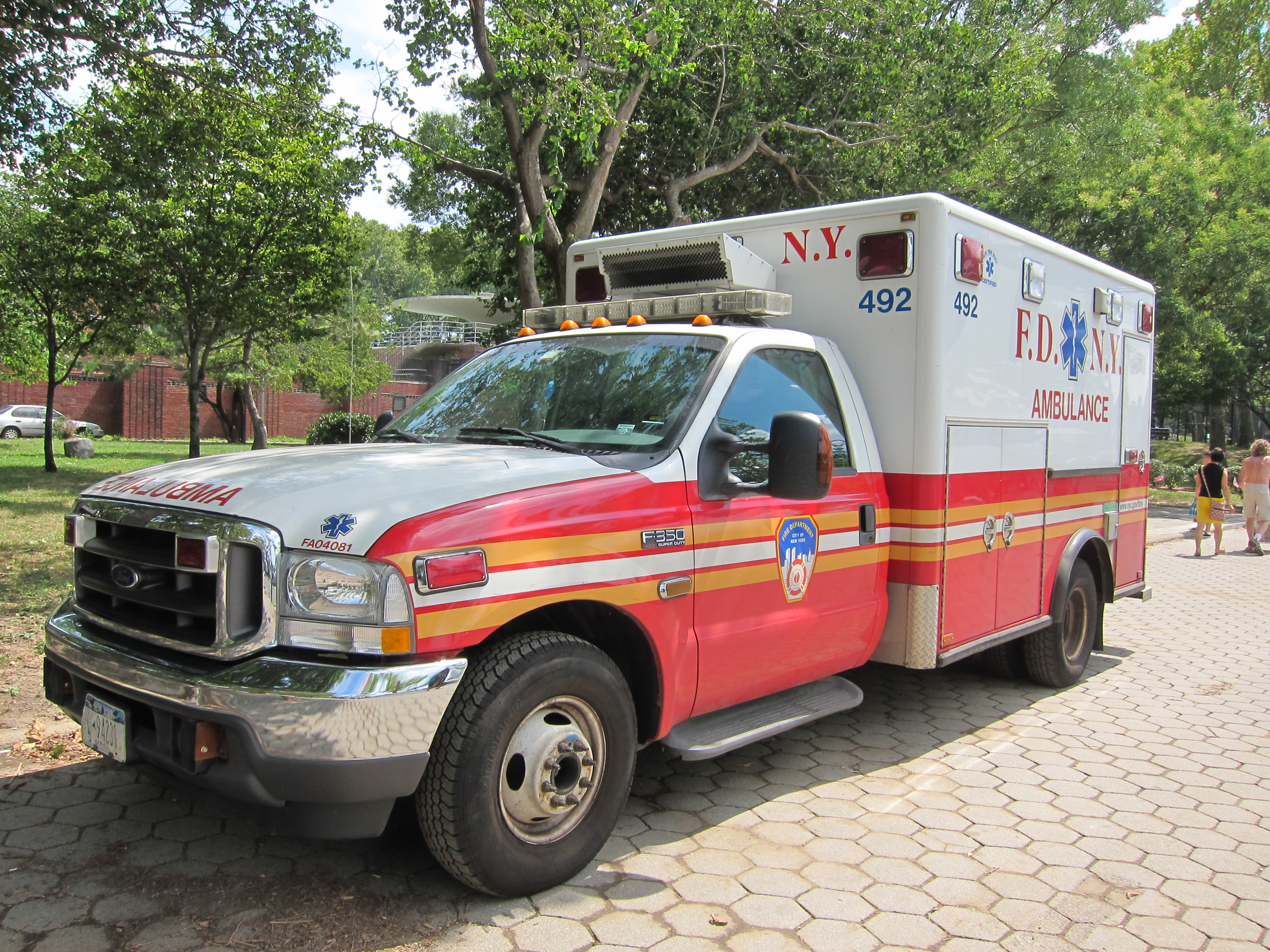 FDNY Ambulance at Astoria Park